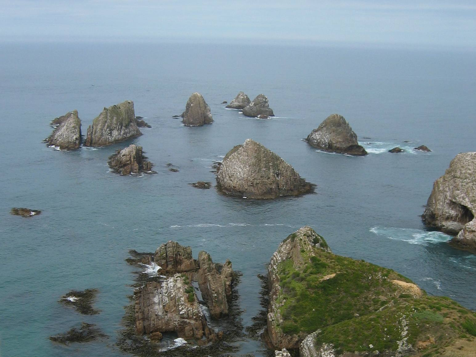 View from the Nugget Point lighthouse, Otago, New Zealand. Fur seals are visible on the rocks below.